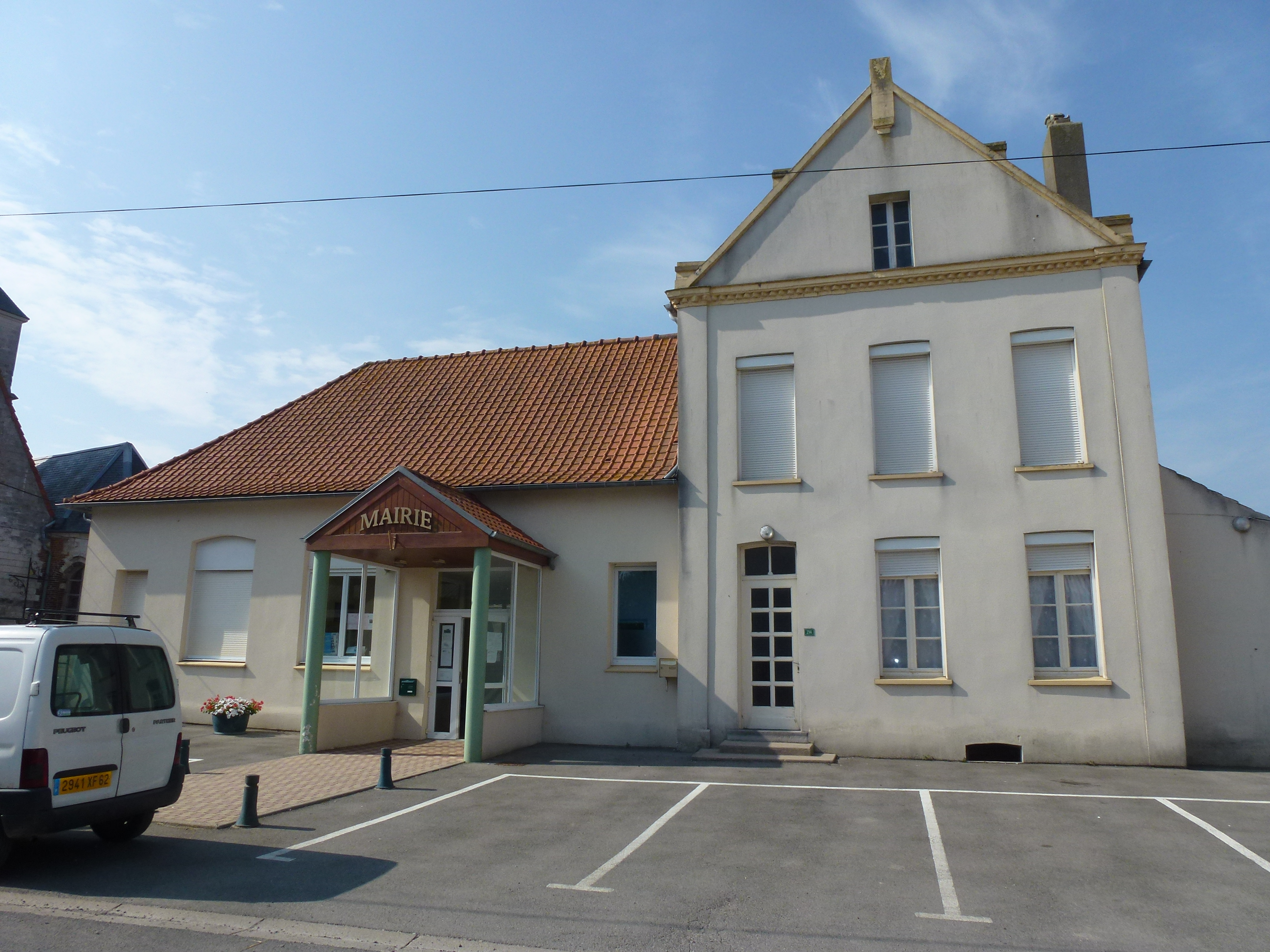 Audrehem (Pas-de-Calais) mairie